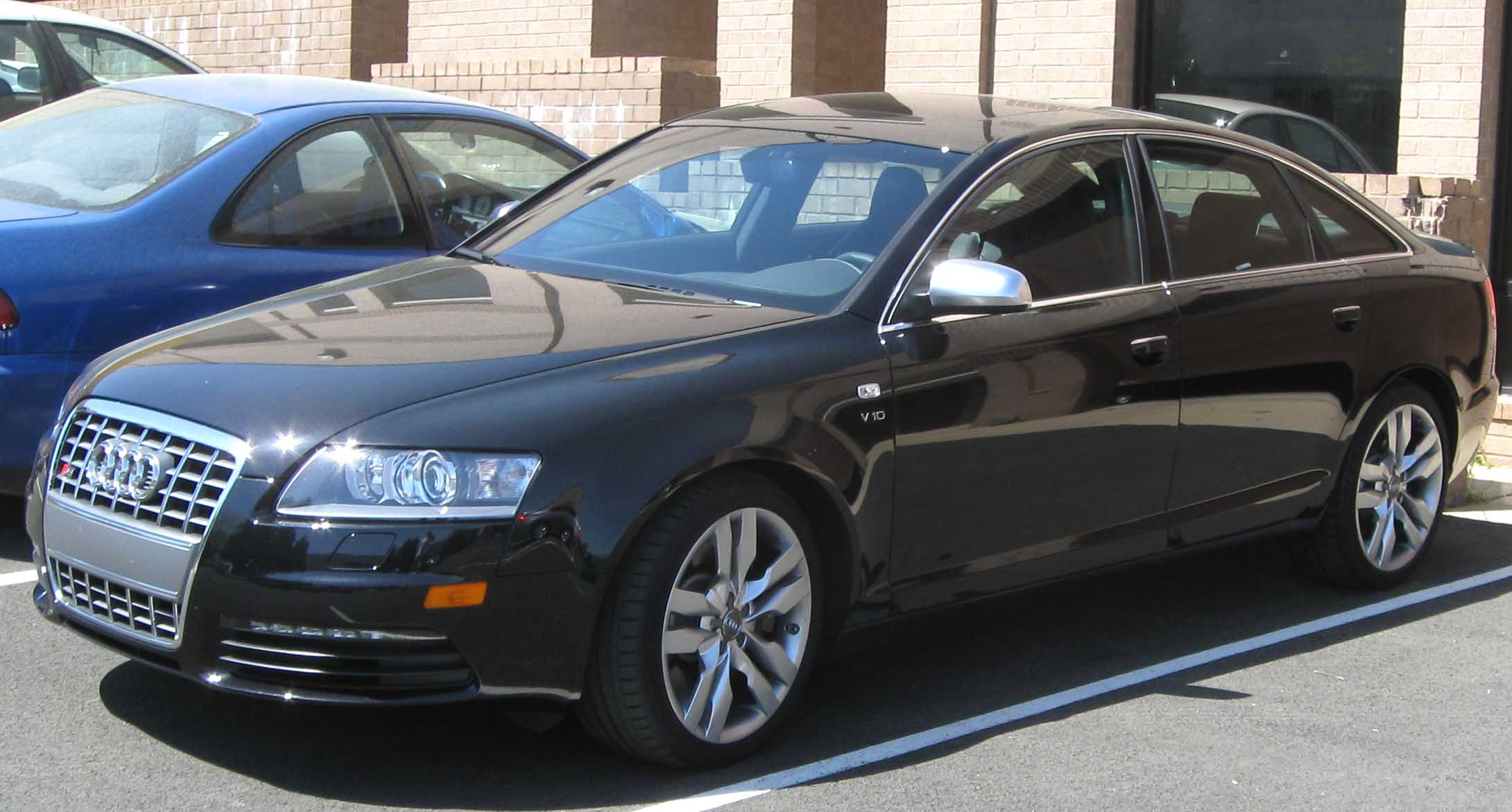 Audi S6 photographed in Chantilly, Virginia, USA.